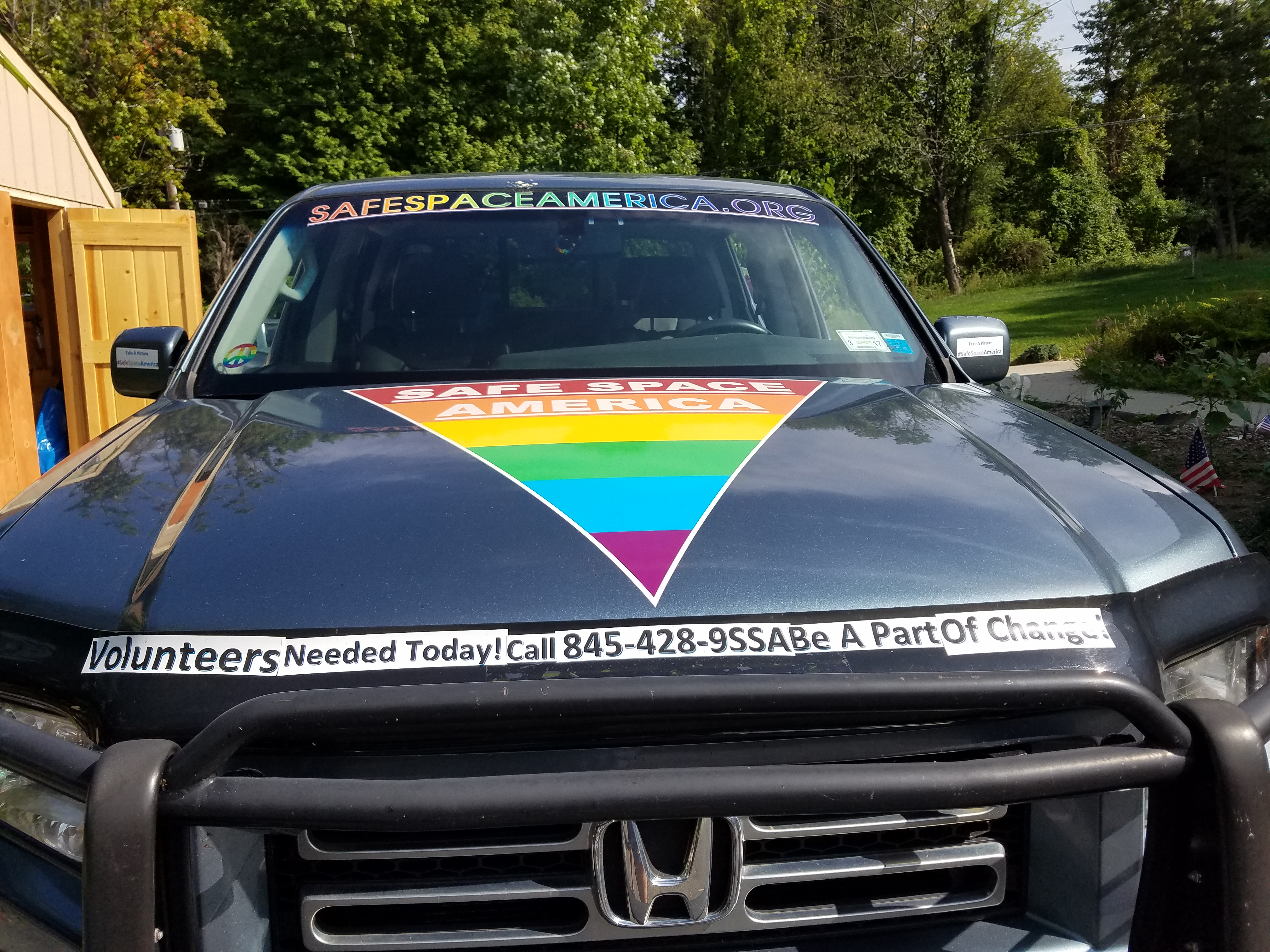 Safe Space America Truck